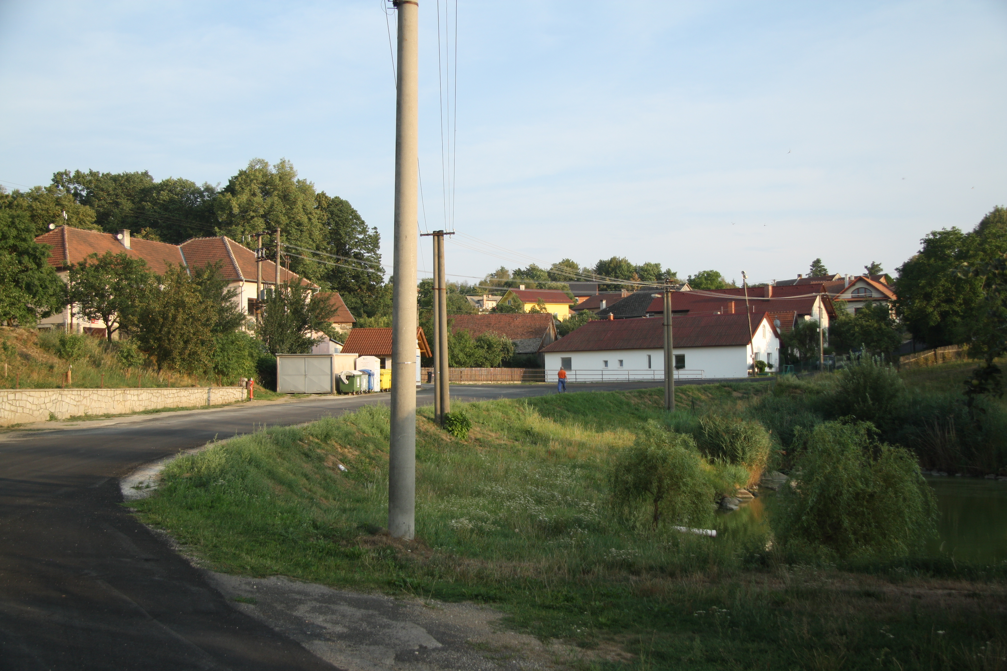 Center of Petráveč, Žďár nad Sázavou District.